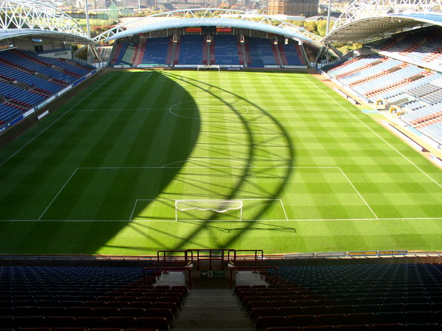 Galpharm Stadium Looking SW from the top of the Panasonic stand with the gasworks visible in the background.